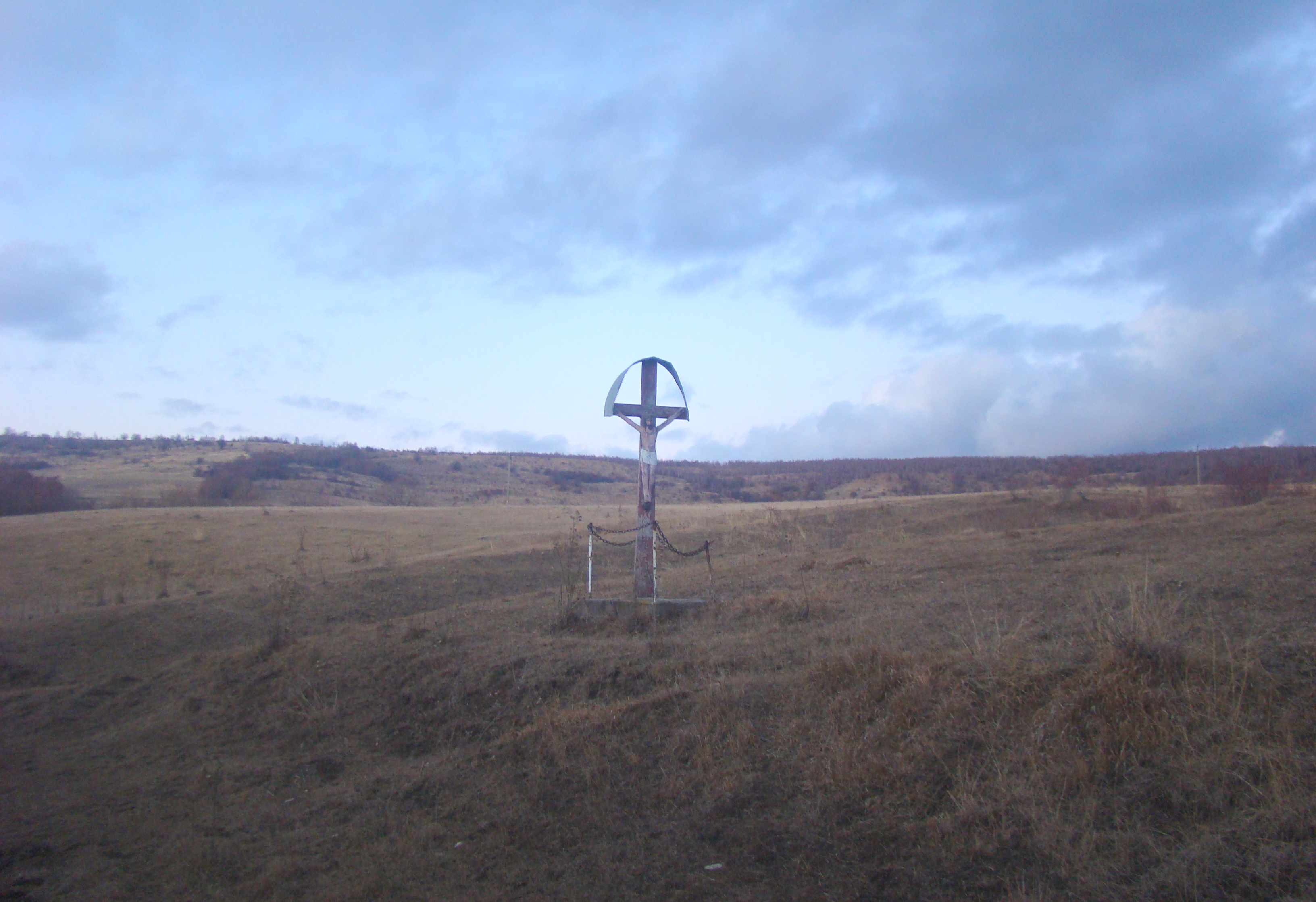 Săliște, Cluj county, Romania